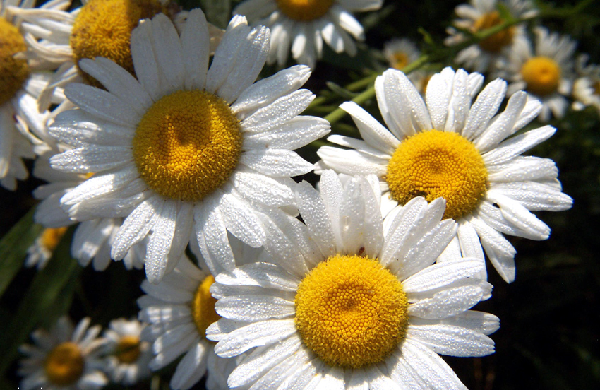 Species Leucanthemum vulgare Family Asteraceae Ox-eye Daisy Leucanthemum vulgare